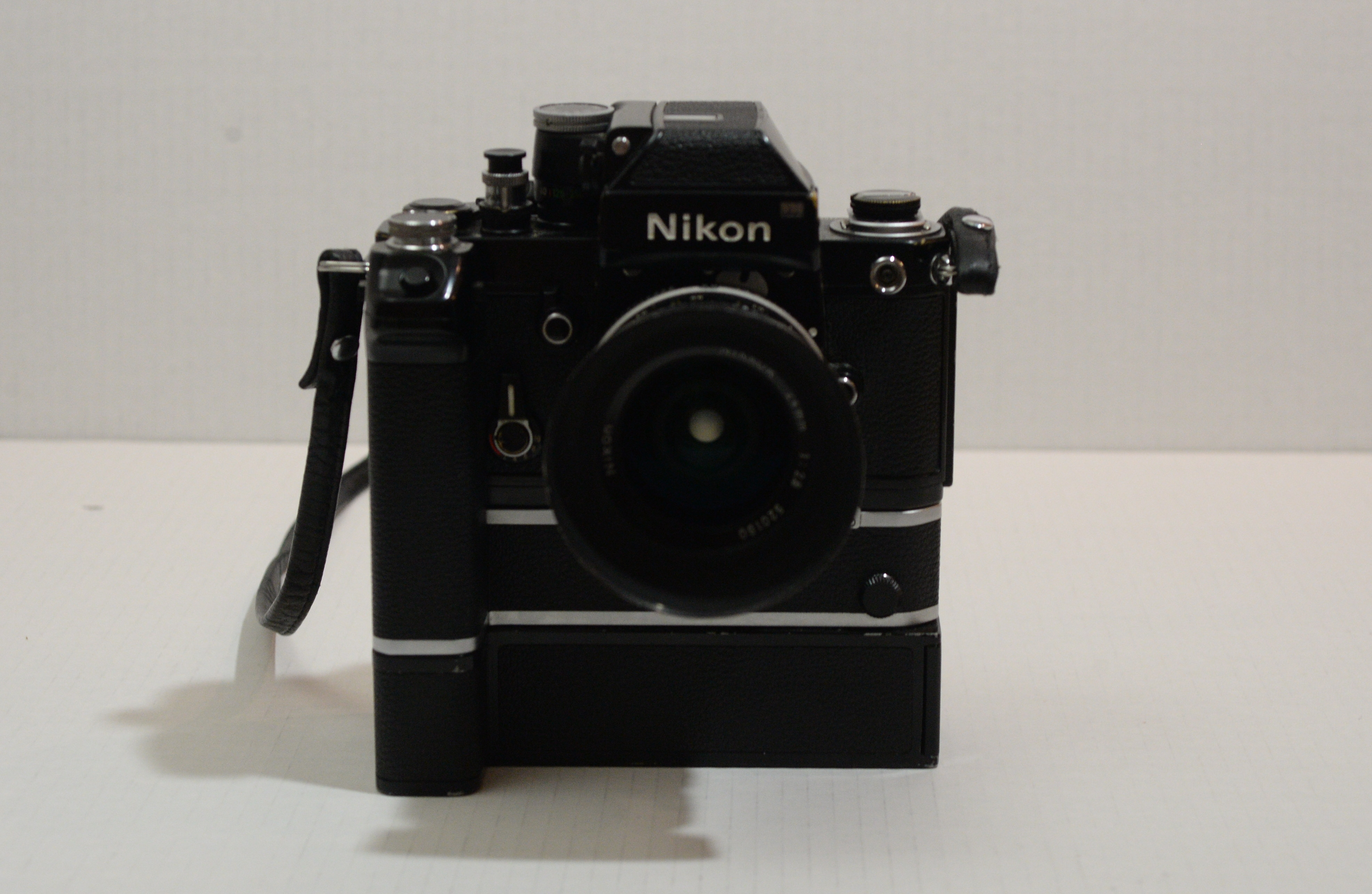 MD-2 motor drive front